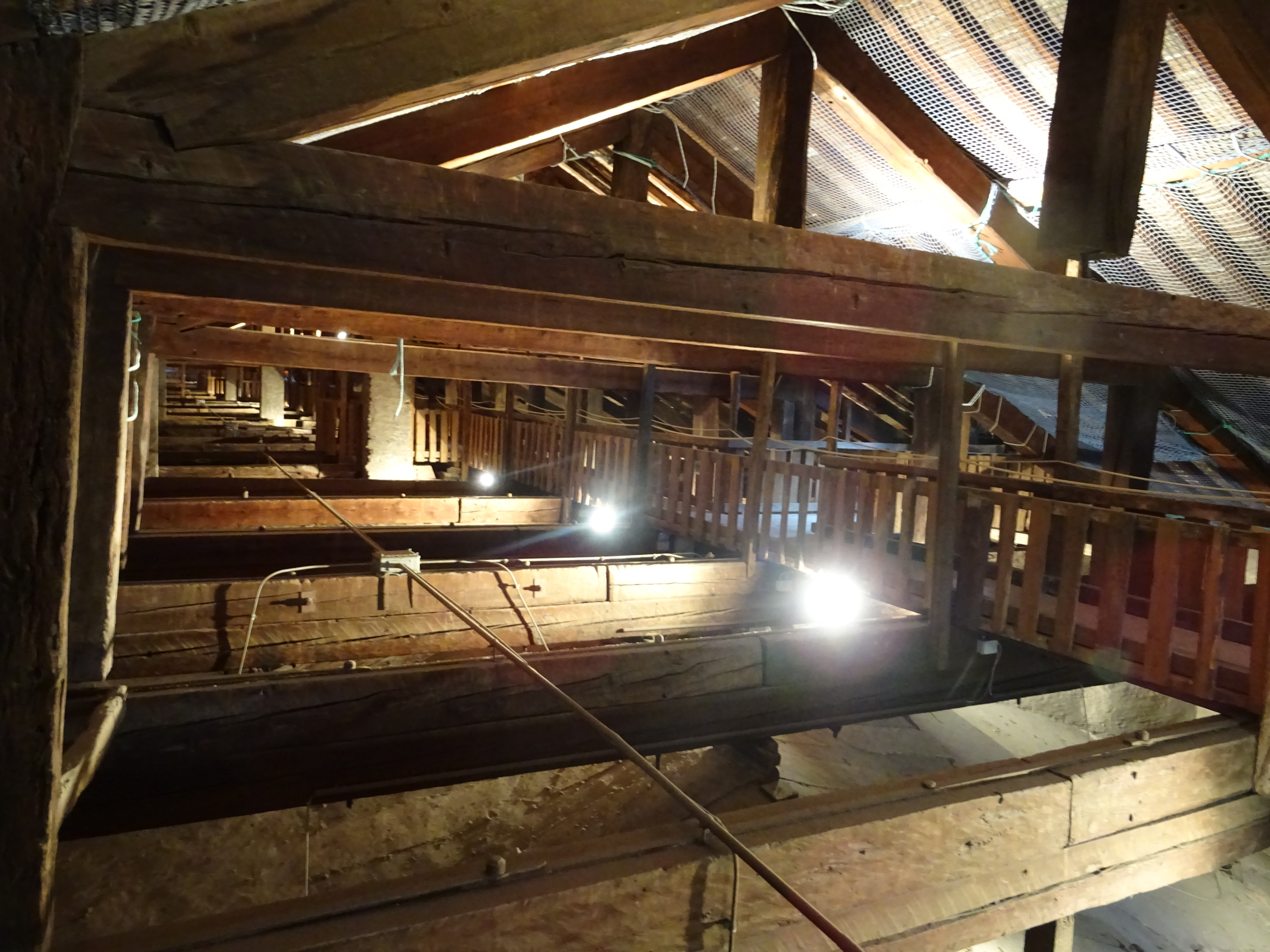 This is a photo of a monument which is part of cultural heritage of Italy.